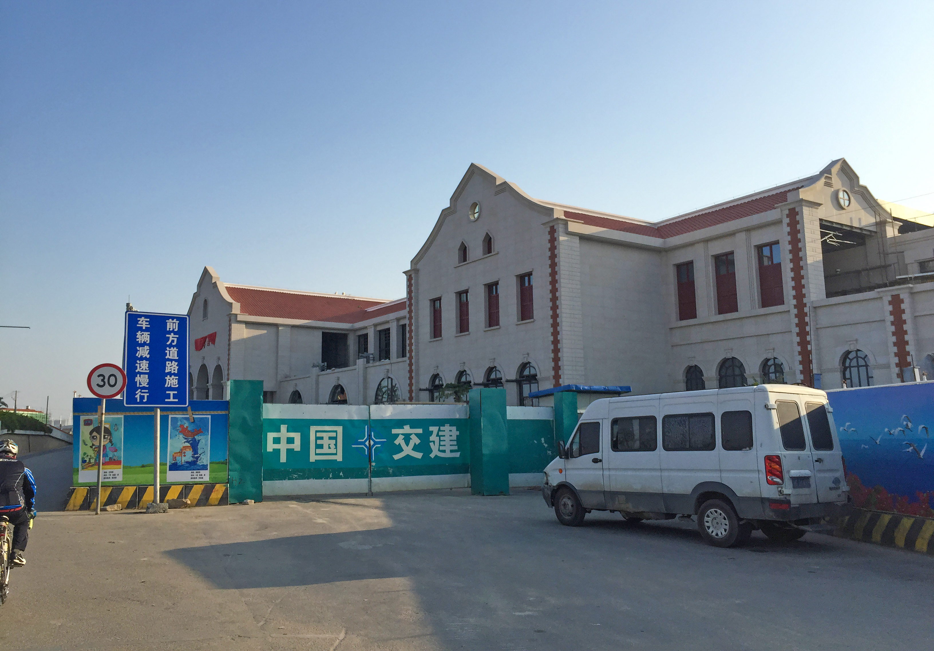 Jimei School Village Station, in accordance with those Tan Kah Kee buildings nearby.